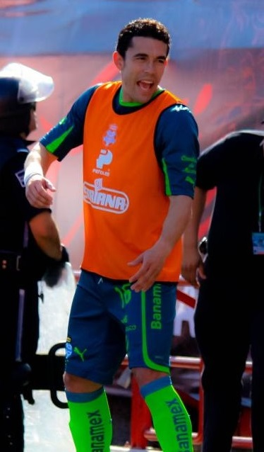 Mexican-American player Herculez Gomez